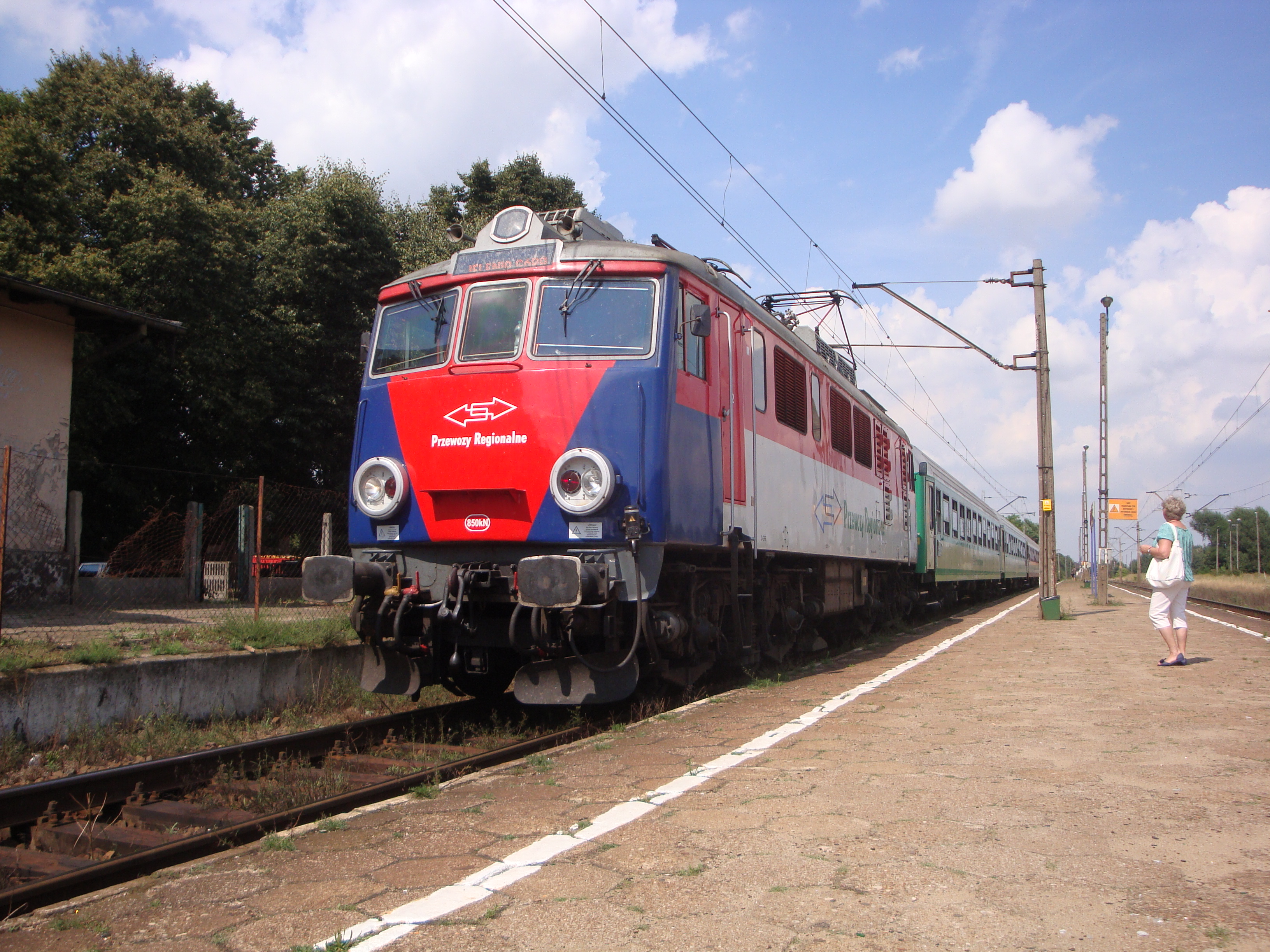 Lokomotywa elektryczna EP07P-2003. This photo was taken during Railway Wikiexpedition 2013 set up by Wikimedia Polska Association.You can see all photographs in category Wikiekspedycja kolejowa 2013. English | Polski | +/−